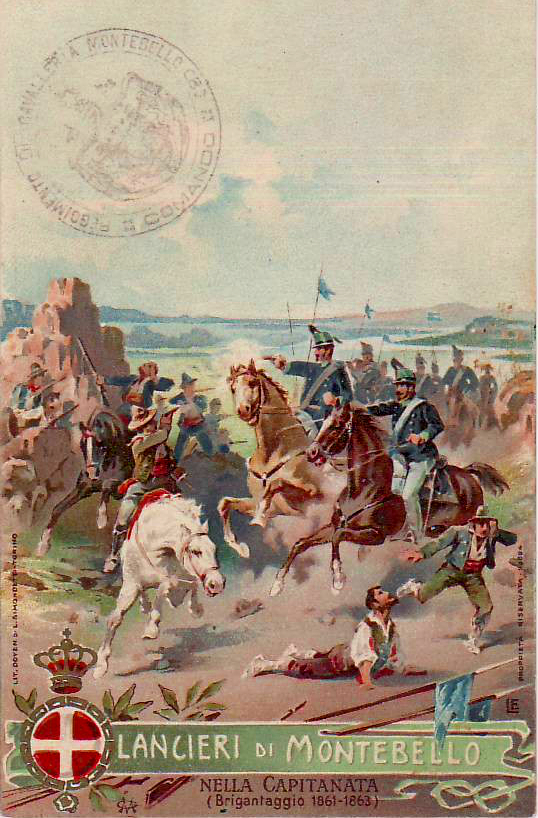 military postal card of "reggimento lancieri di Montebello" to remember fight against brigants 1861-1863